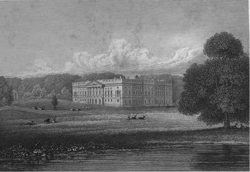 Image of Wentworth Castle. The image is a steel engraving from Jones's Views of the Seats, Mansions, Castles &c, of the Noblemen and Gentlemen of England, Wales, Scotland and Ireland... a publication in six quarto volumes (London, 1829-30). Volumes i-iii covered England. Jones planned a bigger venture of which this was to be part, a Jones' Great Britain Illustrated, which never came to fruition. Jones & Co had premises in Finsbury Square, London, which were known as "The Temple of the Muses": this quite remarkable establishment begun by James Lackington and sold to Jones & Co.